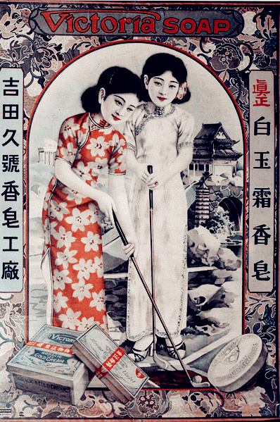 Two women wear Shanghai-styled qipao while playing golf in this 1930s Shanghai advertisement. The advertisement itself appears to be built off of a New Years card, as indicated by this version of the image without the advertisement.